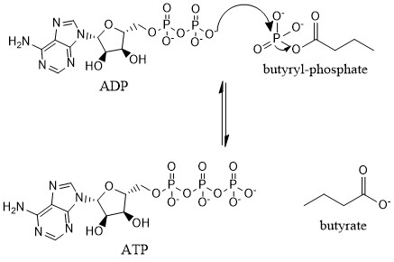 Displays the mechanism of butyrate kinase